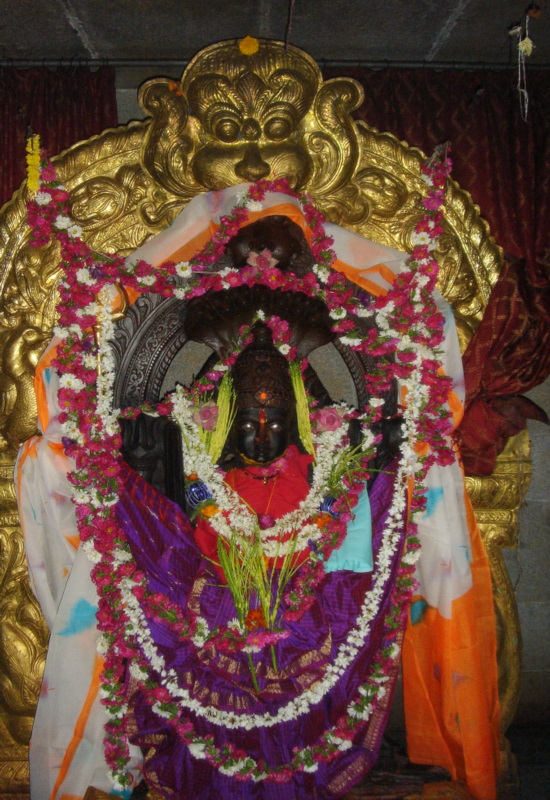 Kempamma devi picture in Bellekeramma Temple in Bajagur